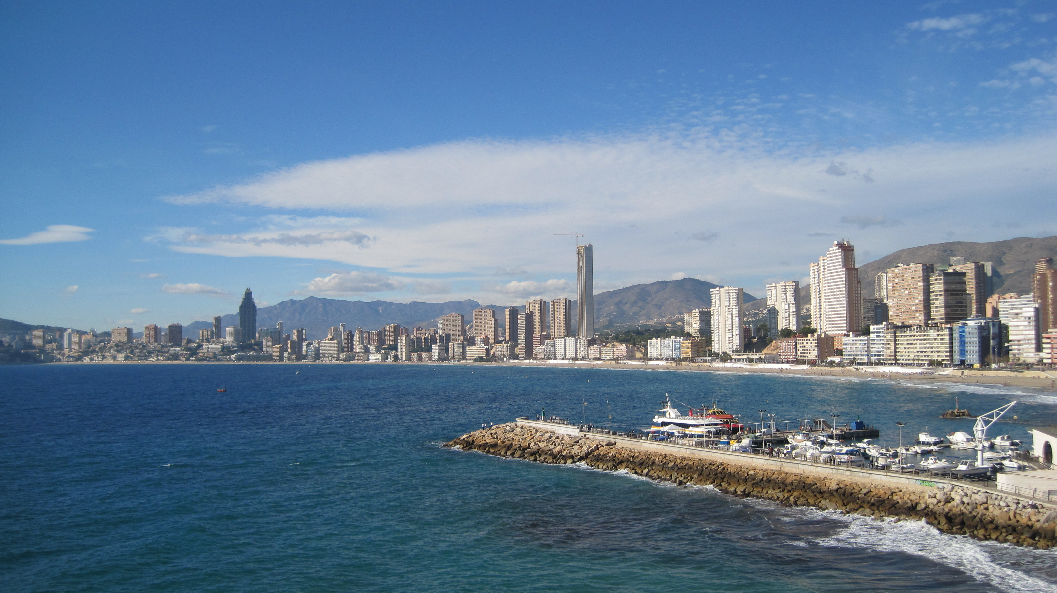 View of Poniente beach, in Benidorm (Spain), from El Mirador.